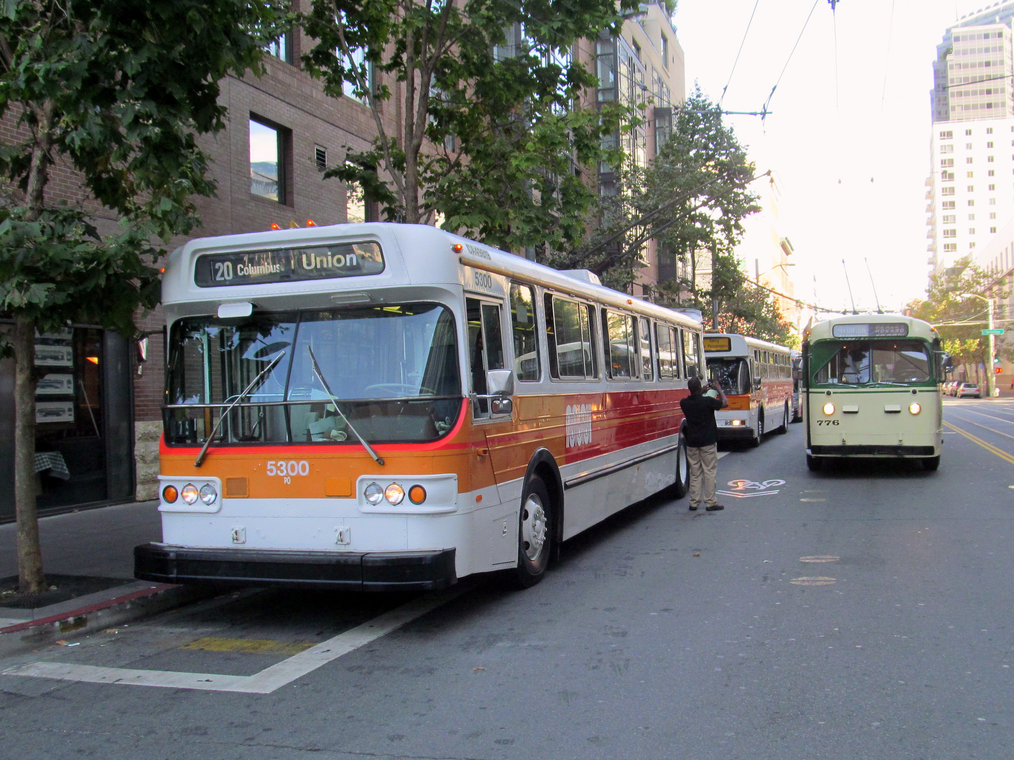 Muni 5300 and 776 on display during Heritage Weekend in September 2017